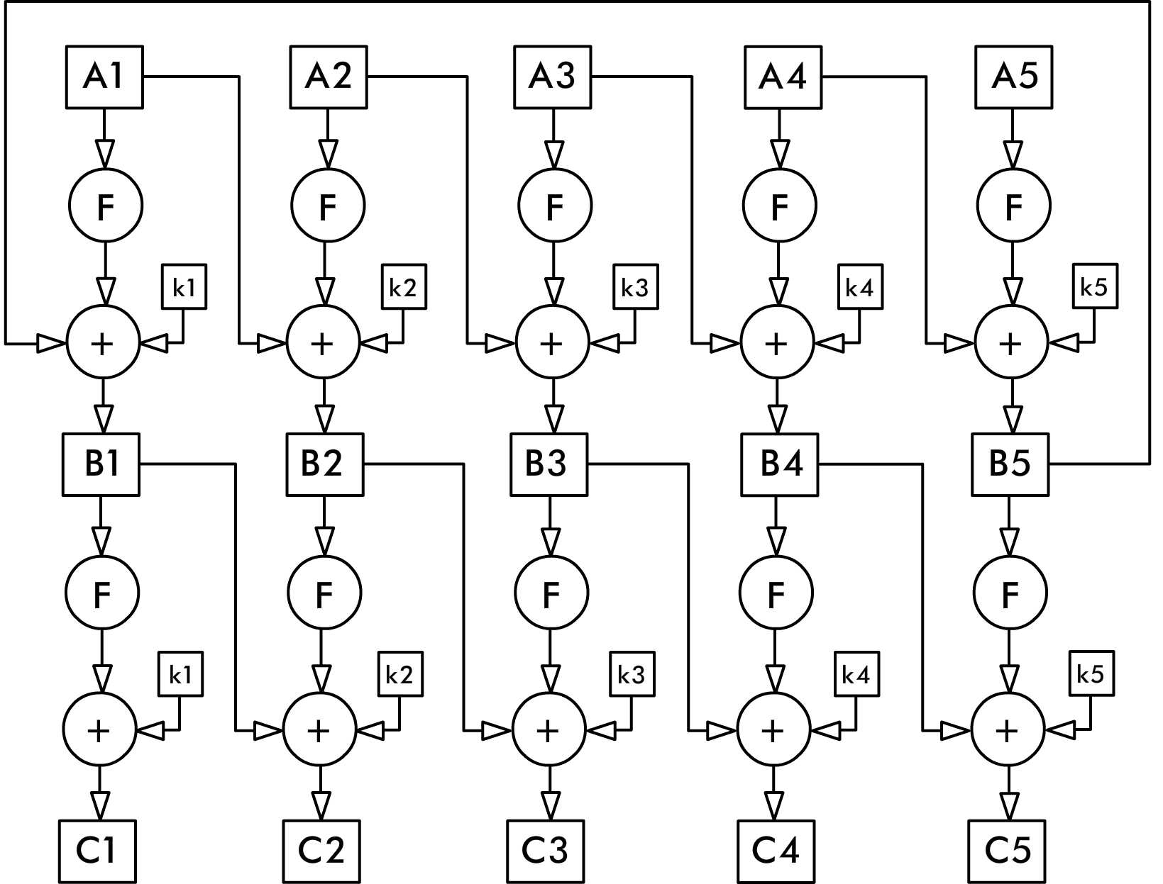 CSS Mangling Function